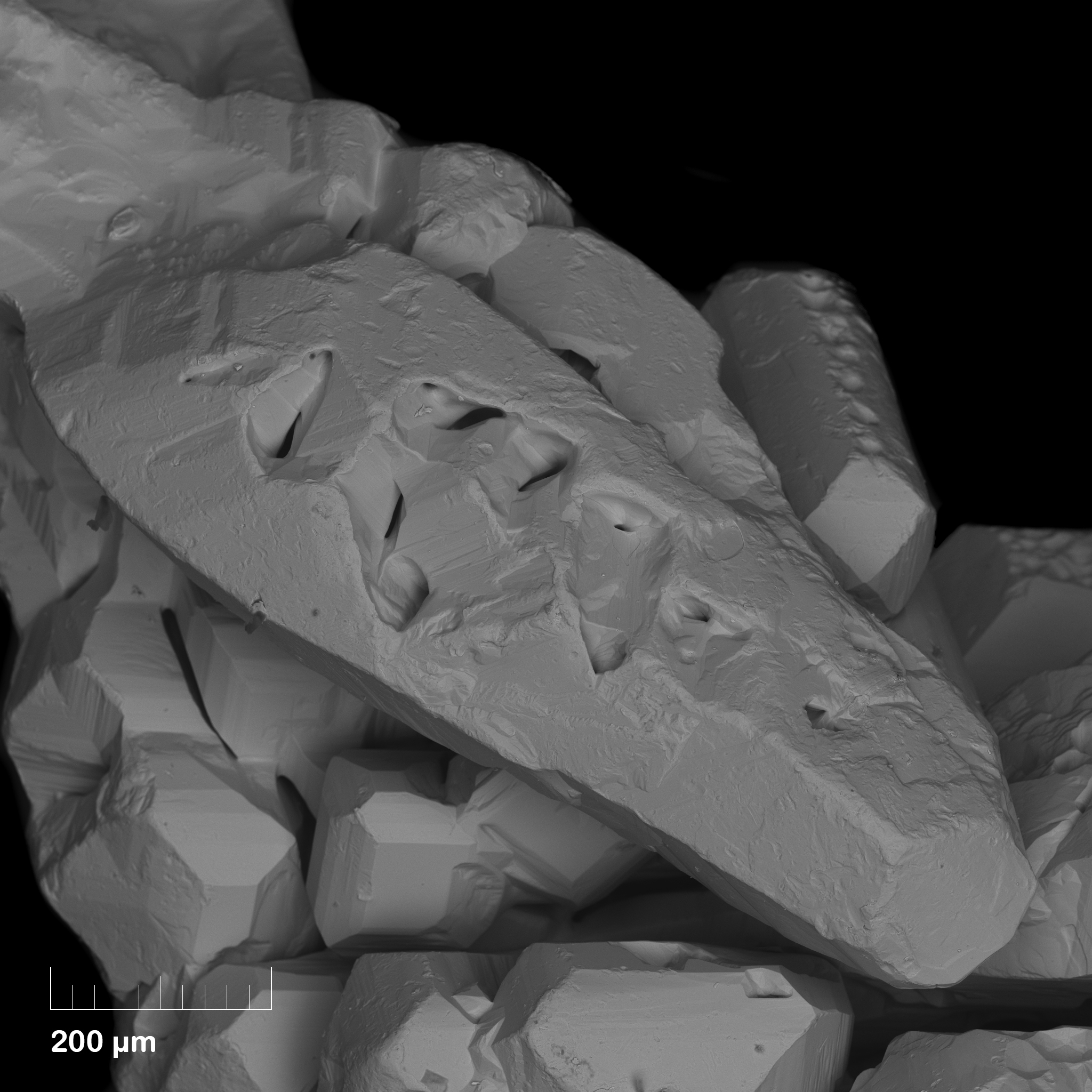 SEM BSE image of made by electrolysis vanadium crystals intergrow